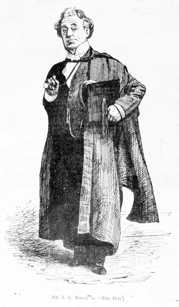 Engraving of John Lawrence Toole as "The Don" 1890